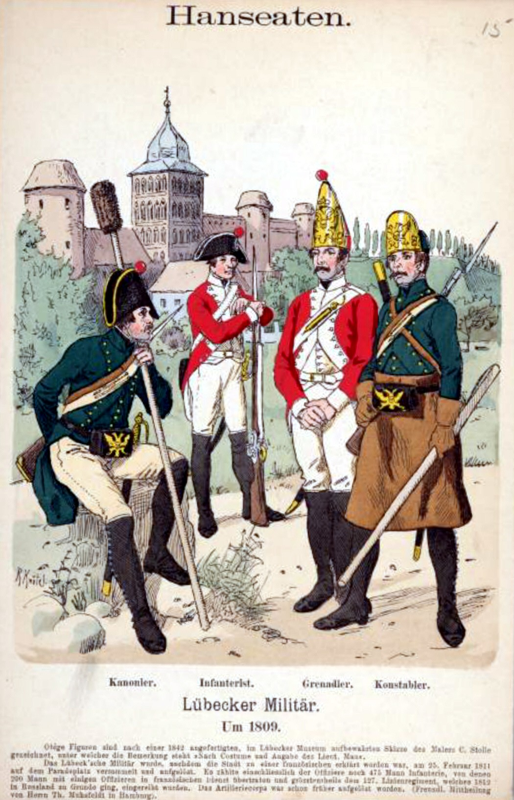 Uniforms of Lübeck's military, 1809